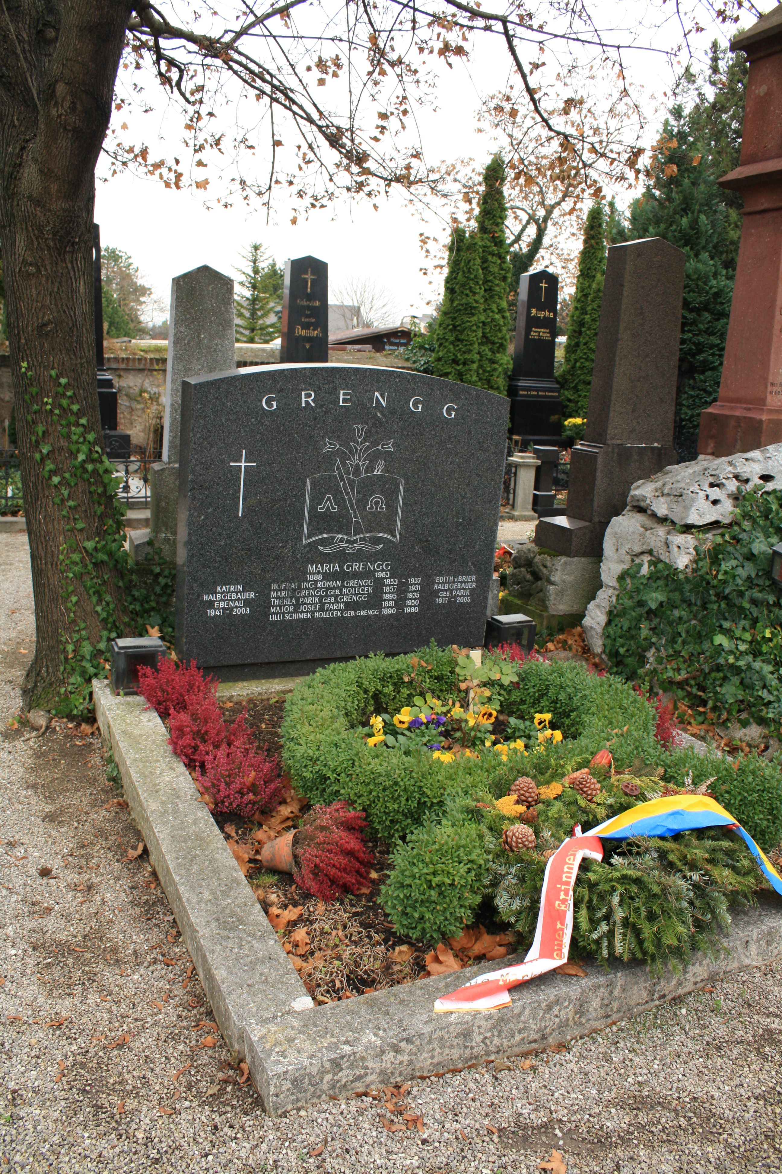 Cemetery in Perchtoldsdorf in Lower Austria